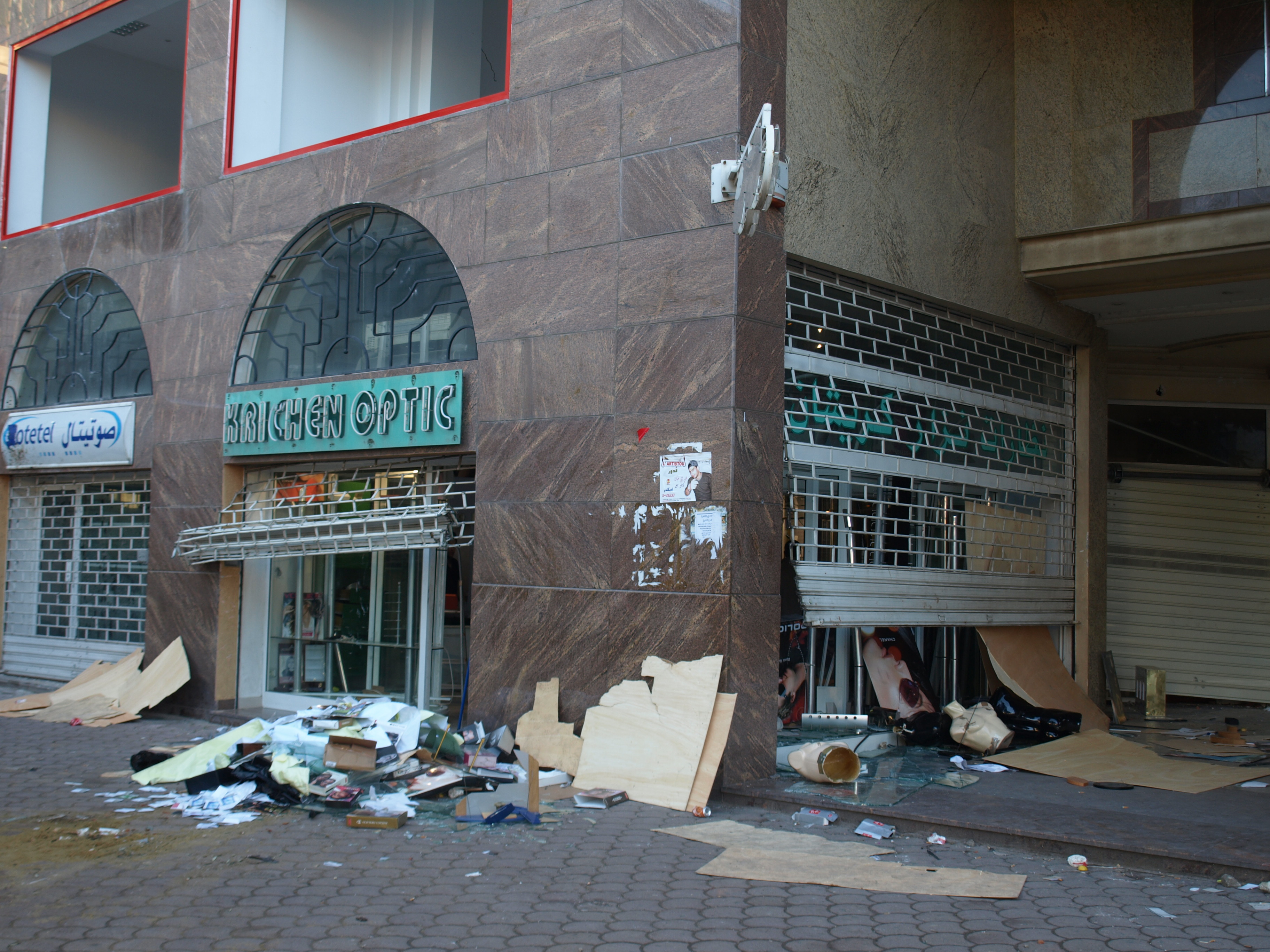 A looted business on the fringes of the demonstrations